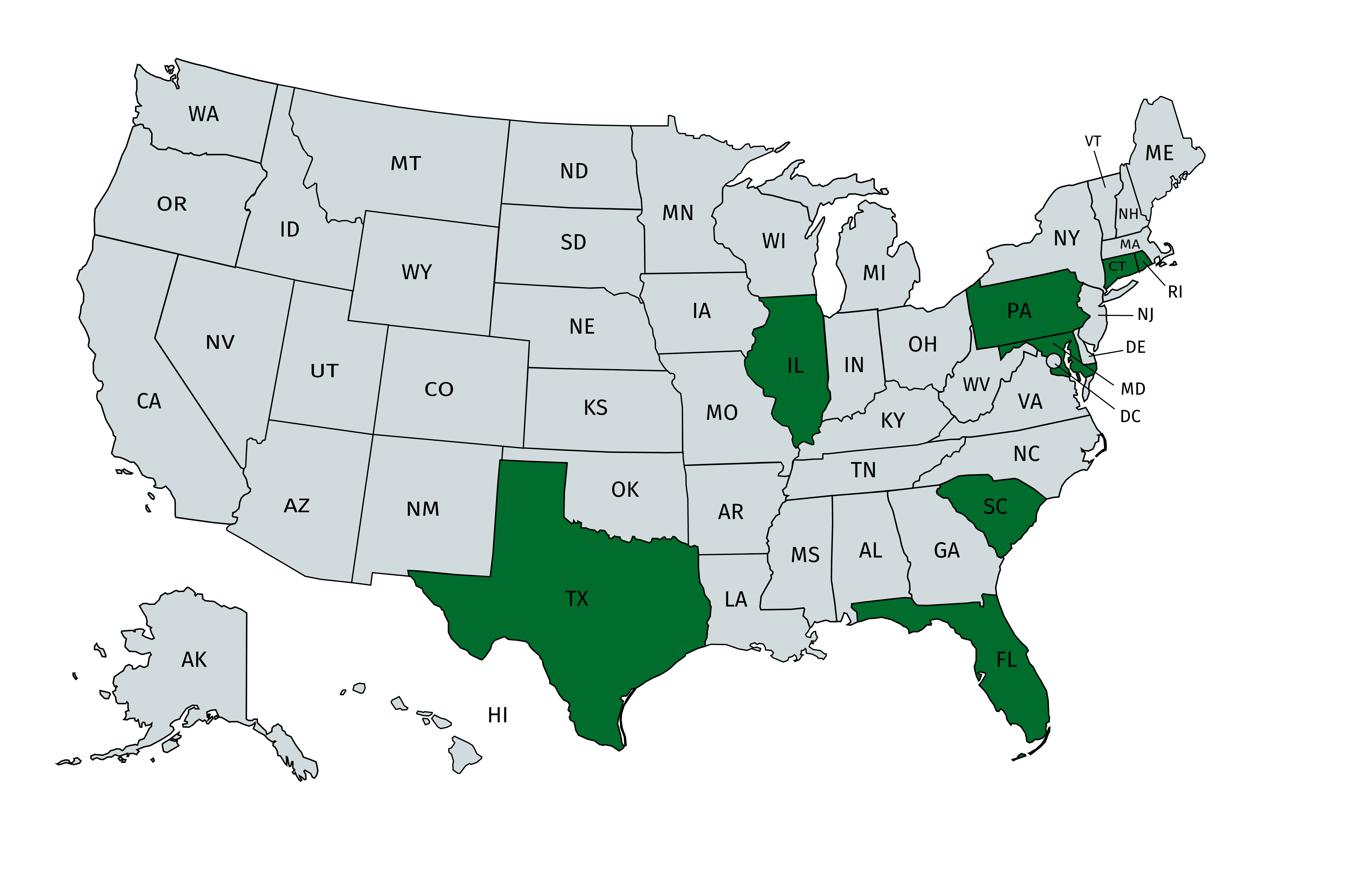 Map showing states represented at the The 1950 Little League World Series, which was held from August 23 to August 26 in Williamsport, Pennsylvania.